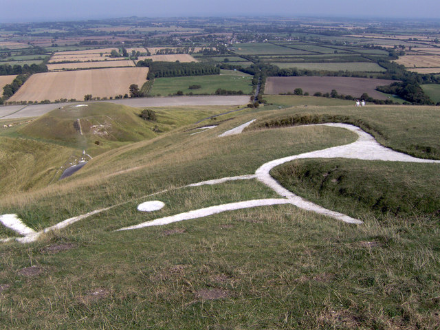 Uffington White Horse and Dragon Hill. The head end of the white horse is closest to the camera. Dragon Hill can be seen to the left, with the Vale of White Horse beyond